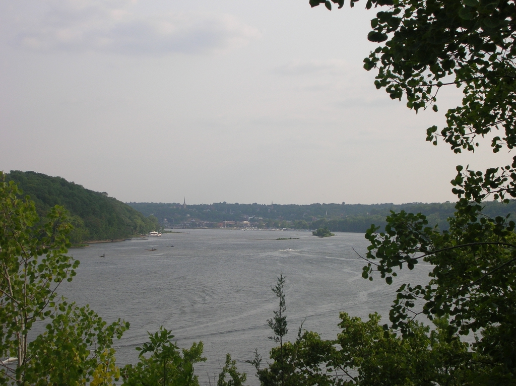 A view of the St. Croix River upstream of (and looking toward) Stillwater, Minnesota. Category:Images of Minnesota